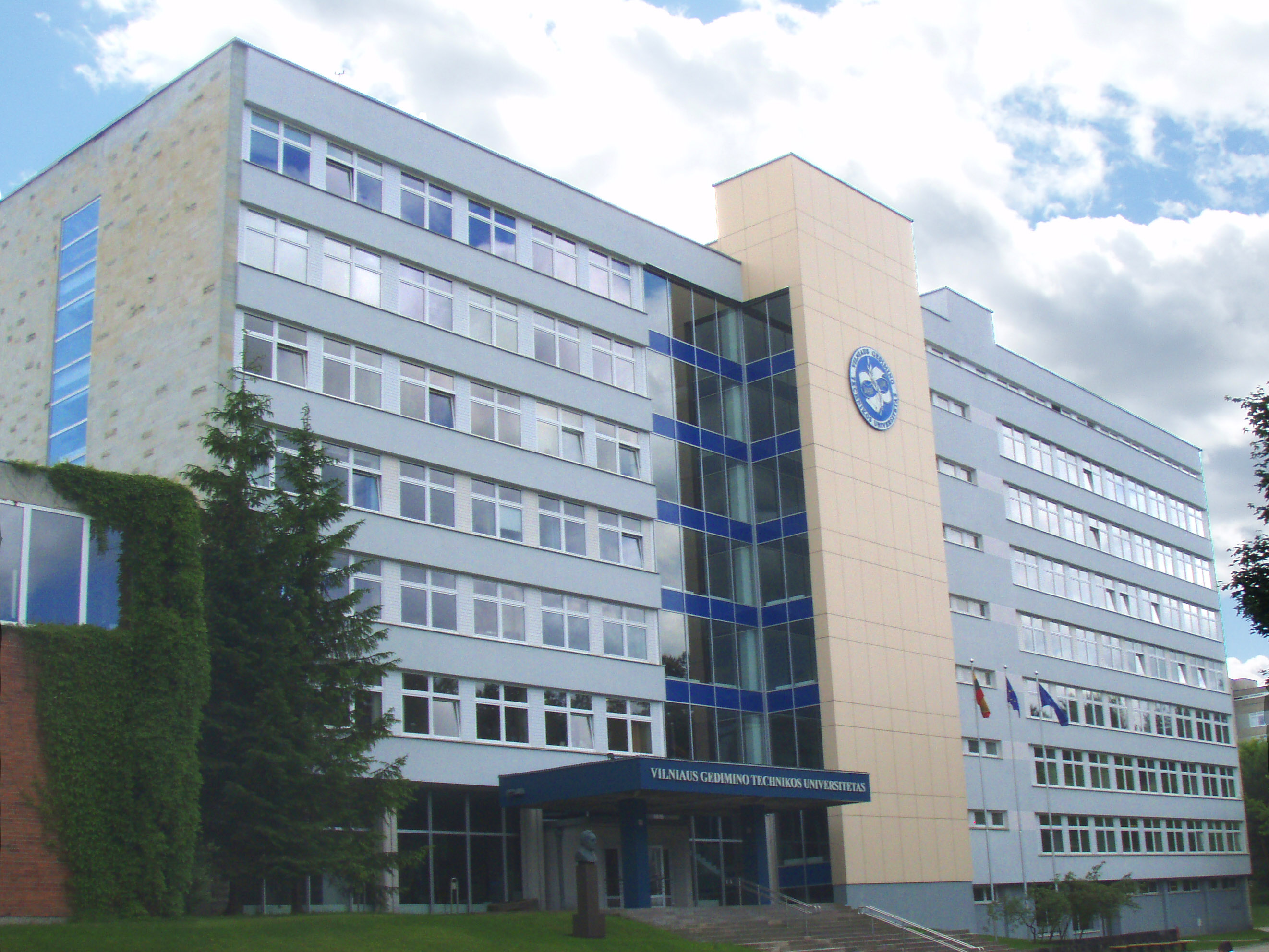 VIlnius Gedeminas Technical university, building in Saulėtekis, Vilnius